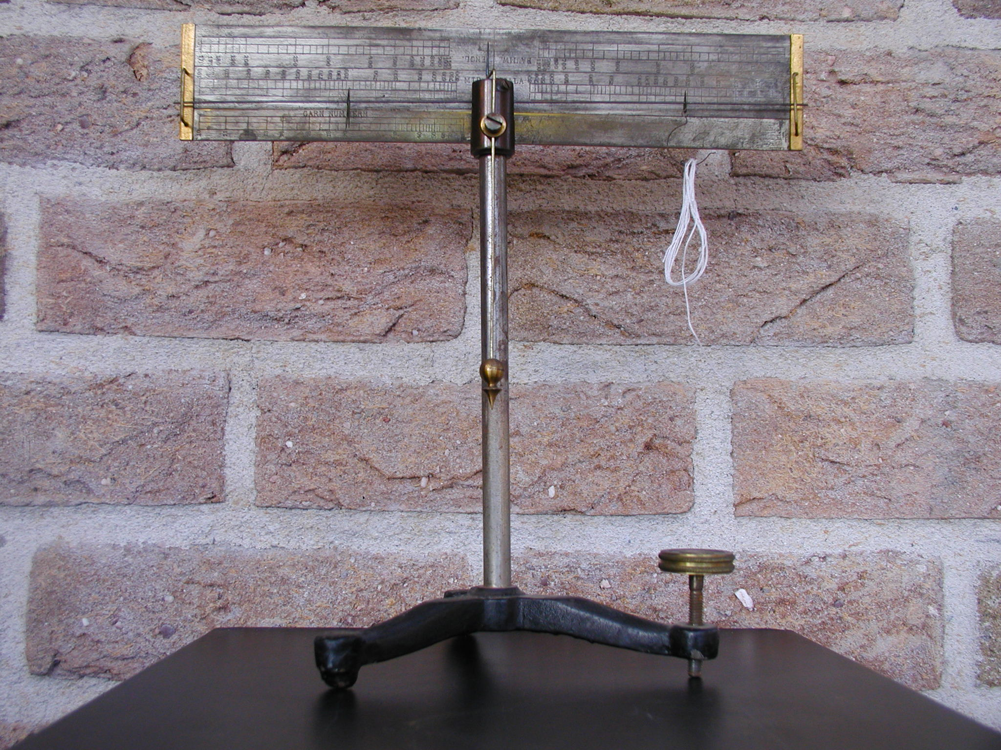 Apparatus for the determination of the yarn number